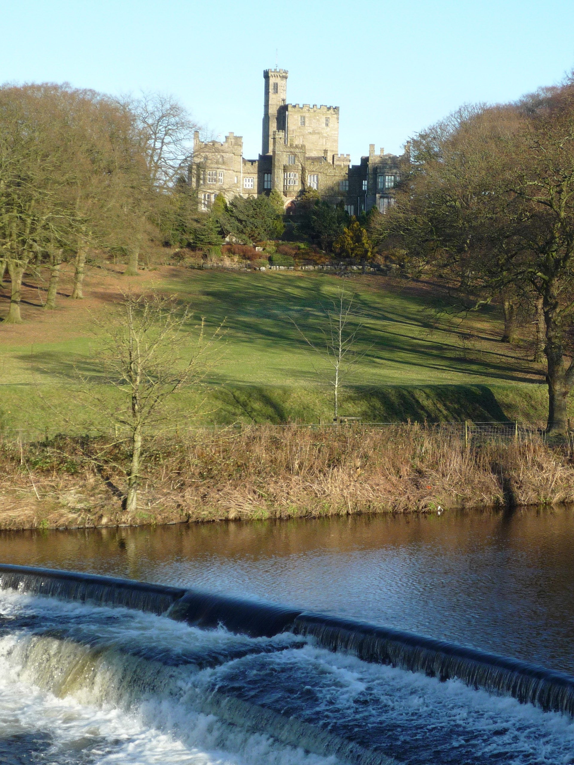 Hornby Castle, Lancashire seen from Hornby Bridge at grid reference SD 584 683 looking northeast. The River Wenning is in the foreground.